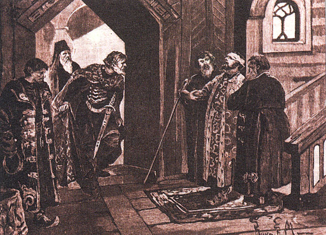 Viktor Muizhel. Meeting of Dmitry Shemyaka with Vasily II. Title: [1]